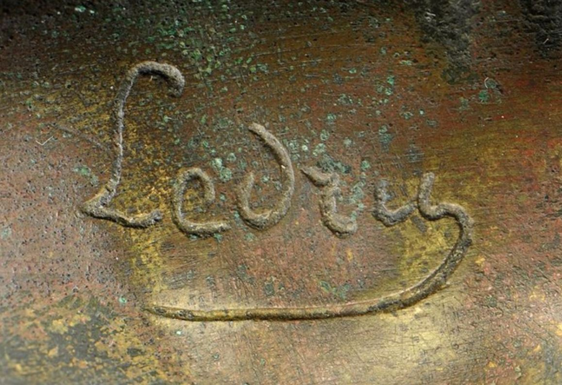 Auguste Ledru's signature